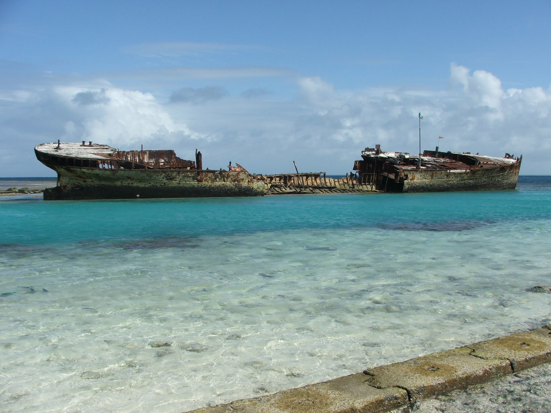 HMAS Protector remains on Heron Island reef at low tide